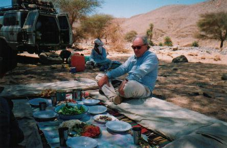 Professor Jeremy Keenan at lunch near Ideles, Algeria, March 2002.